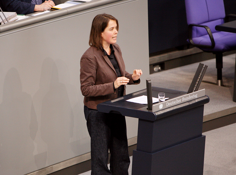 Christine Buchholz, German politician of The Left